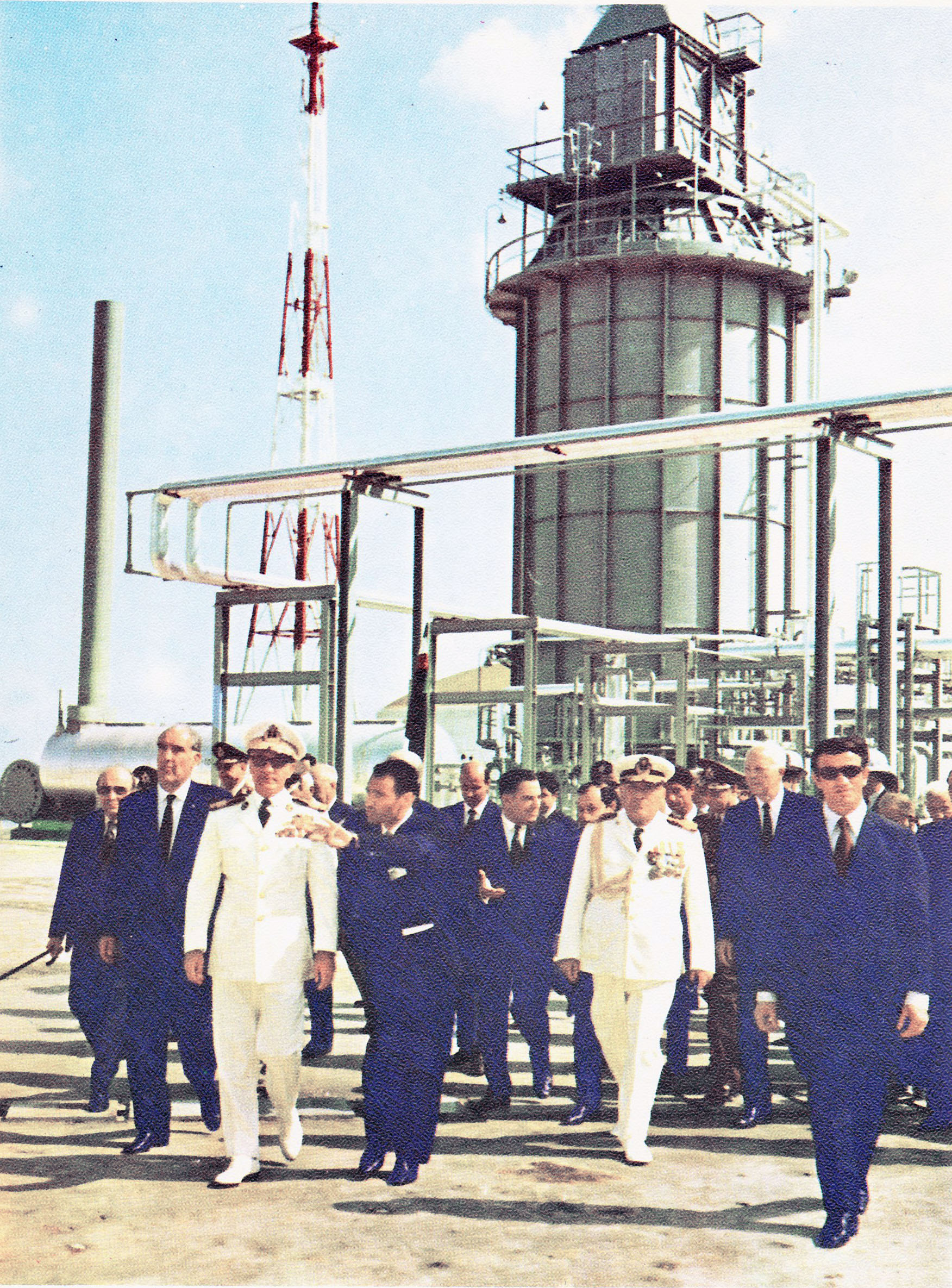 HIM Shah of Iran visits the Kharg Petrochemical Complex.